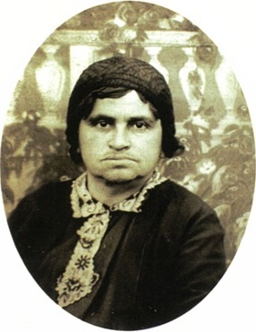 The single known photo portrait of Sarah Schenirer